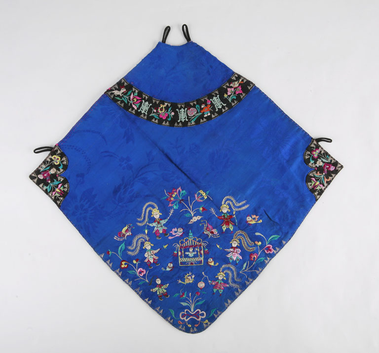 An Embroidered infant undergarment in the permanent collection of The Children’s Museum of Indianapolis.